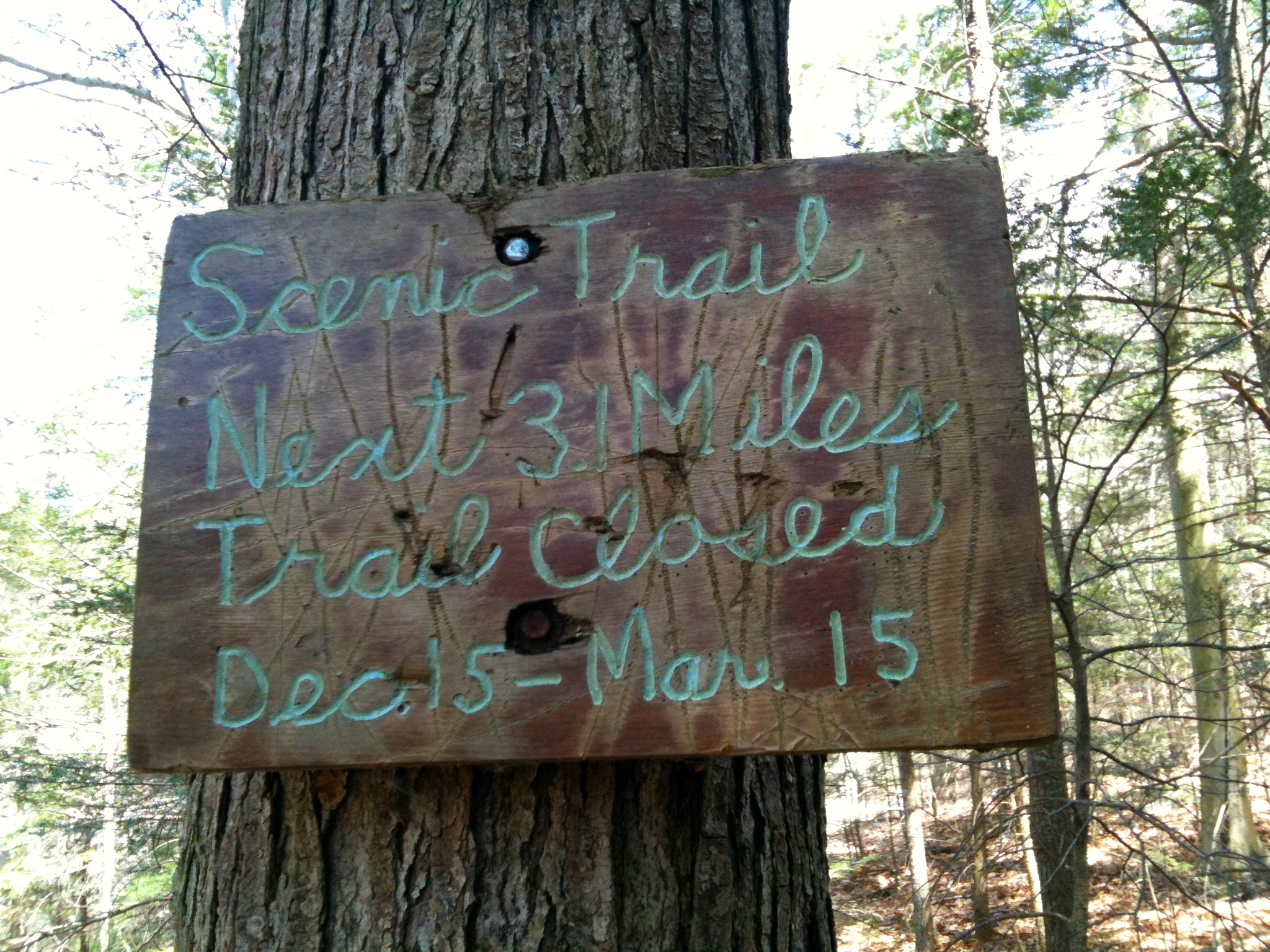 Lillinonah Trail. Blue-Blazed CFPA foot path which circles the upper Paugussett State Forest (and Lake Lillinonah/Housatonic River) in Newtown, CT. Pond Brook seasonal scenic trail sign. Lillinonah Trail. Blue-Blazed CFPA foot path which circles the upper Paugussett State Forest (and Lake Lillinonah/Housatonic River) in Newtown, CT.